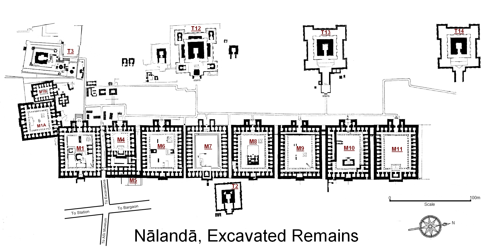 A map of the excavated remains of Nalanda based on the one included in Amalananda Ghosh's A Guide to Nalanda (5 ed.) (1965) published by the Archaeological Survey of India. Legend: M1 represents Monastery Site 1. T3 represents Temple Site 3.